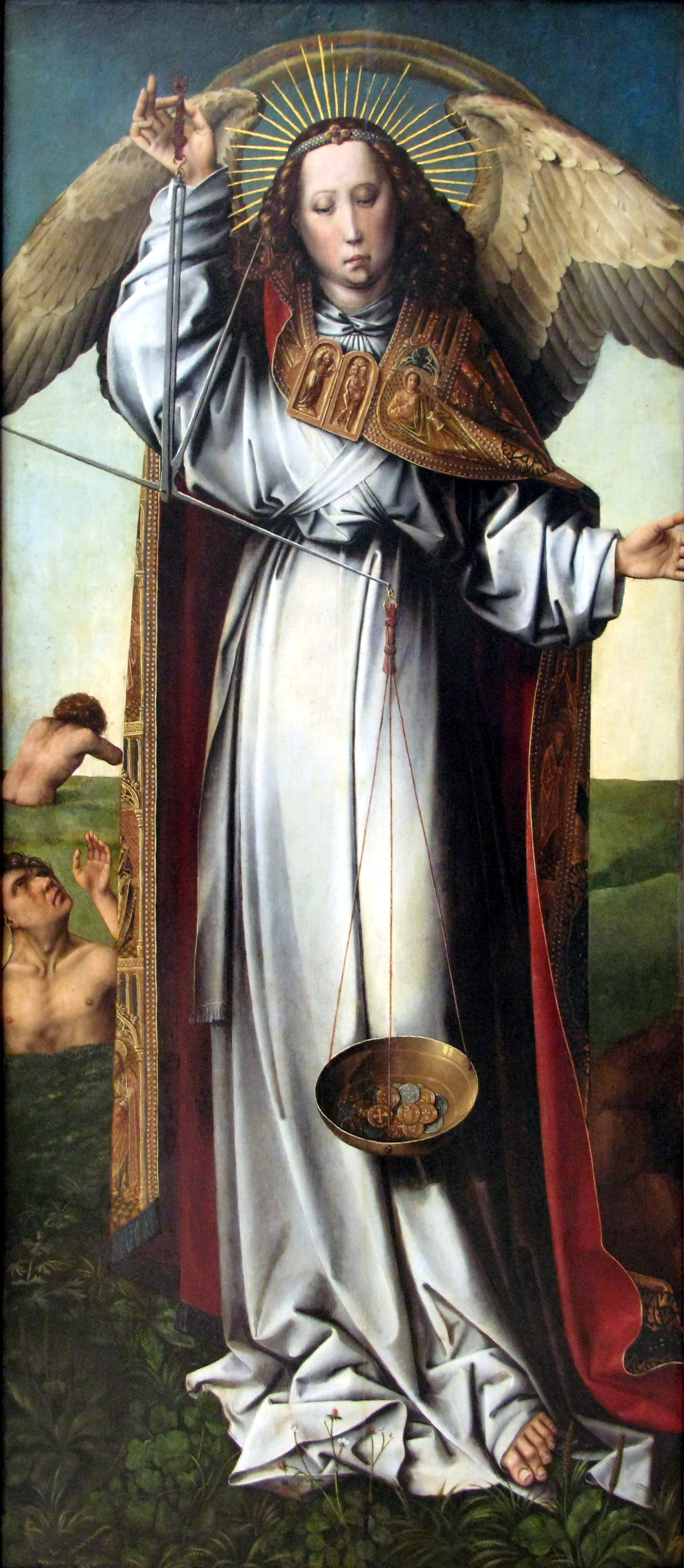 Saint Michael, on the retable of Judgement Day of Saint Alban church in Cologne. Colijn de Coter. (ca 1455; active after 1539)